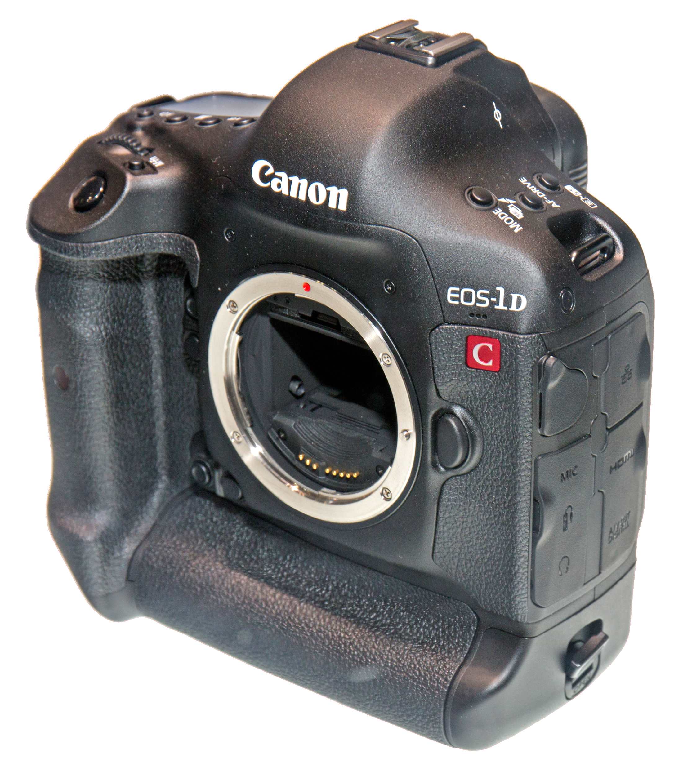 CP+ 2013: 2012 Canon EOS-1D C